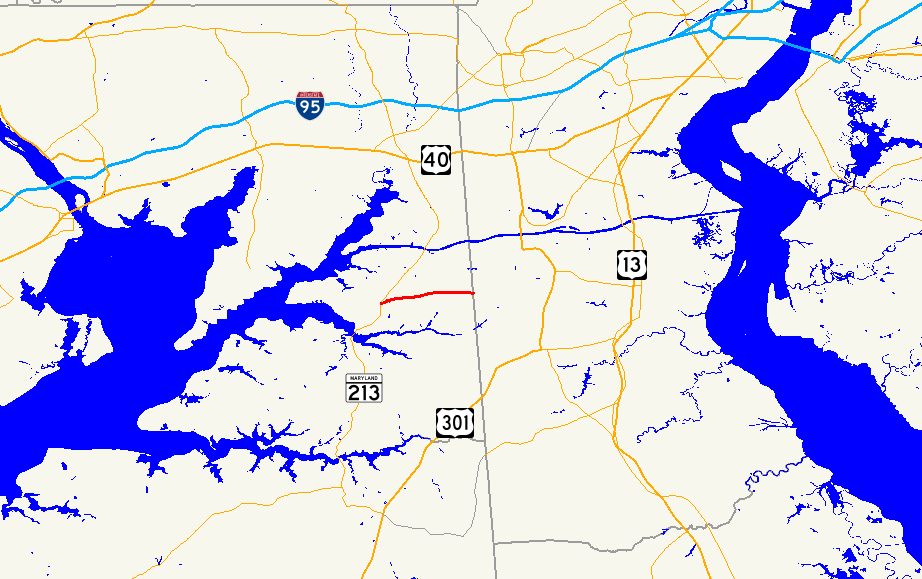 Map of Maryland Route 310